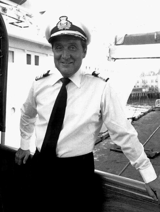 Photo of Patrick Macnee from the television program Columbo. In this episode, "Troubled Waters", he played the captain of a cruise ship plagued with crime.